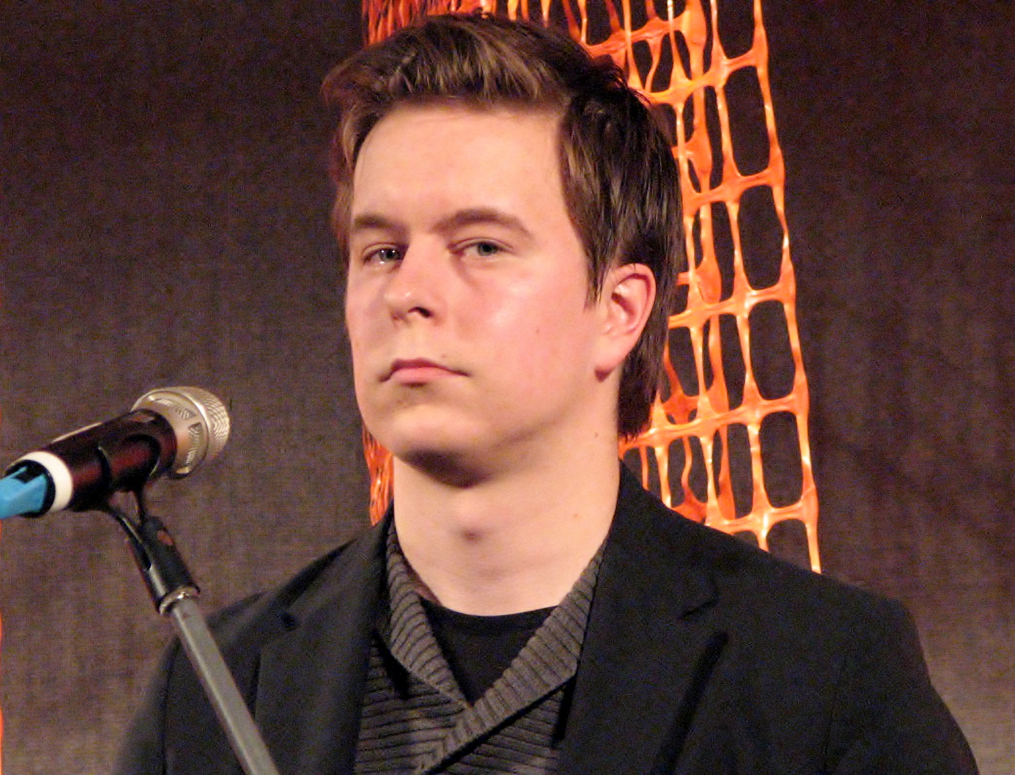 Esa Mäkijärvi performing in HeadRead festival